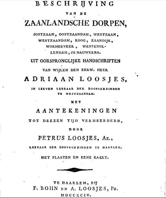 Titlepage "Description of the towns of Zaanland (North Holland) by Petrus Loosjes after the diaries of his father Adriaan Loosjes the Elder; published by Adriaan Loosjes.